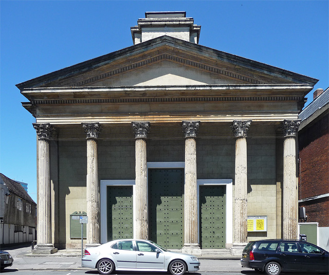 Corinthian portico of St Mary's church, Castle Street, Reading, Berkshire. The plinth above the pediment is the base of a former bell turret that was removed in 1959.